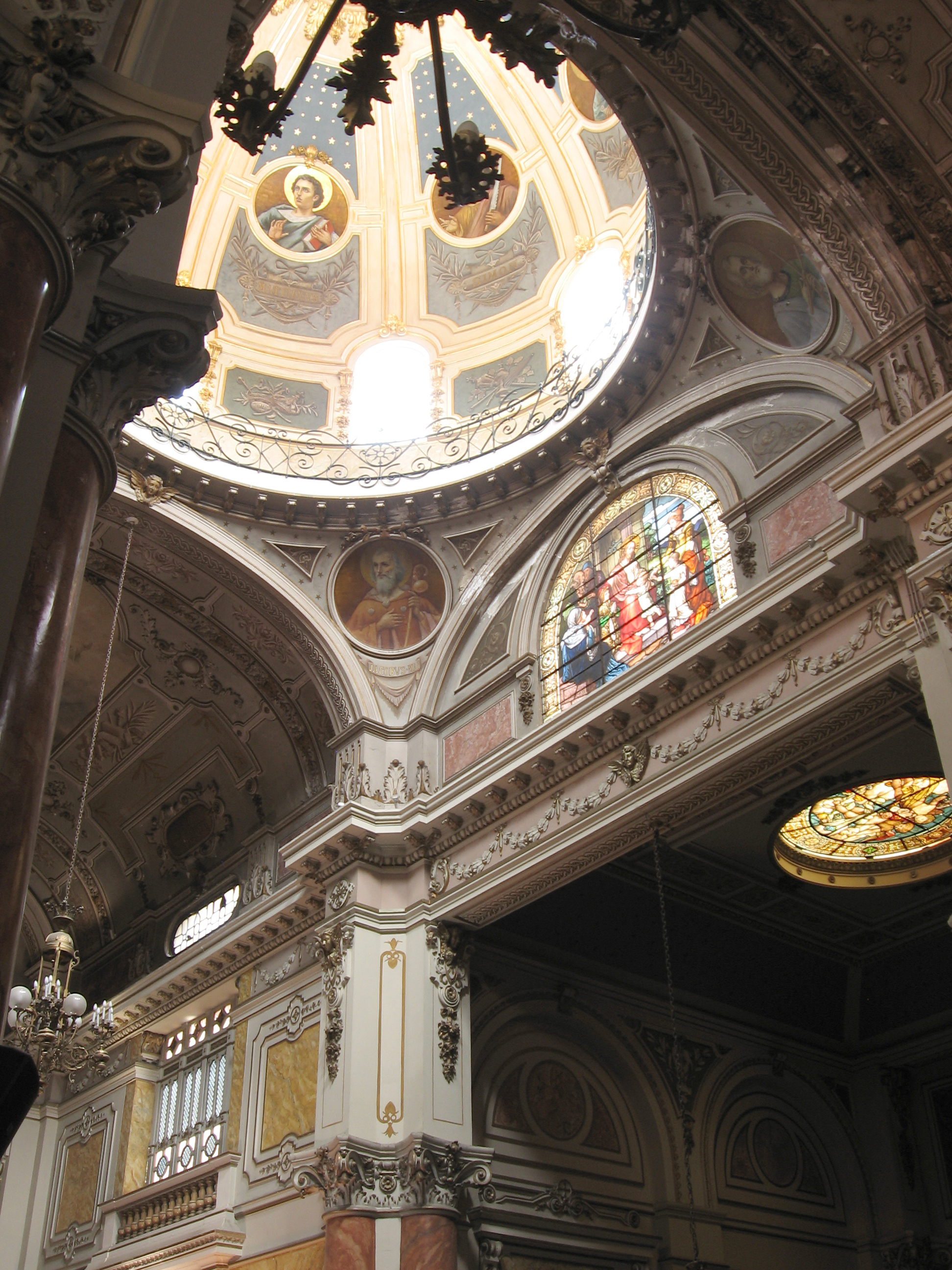 This is a photo of a national monument in Chile: 873